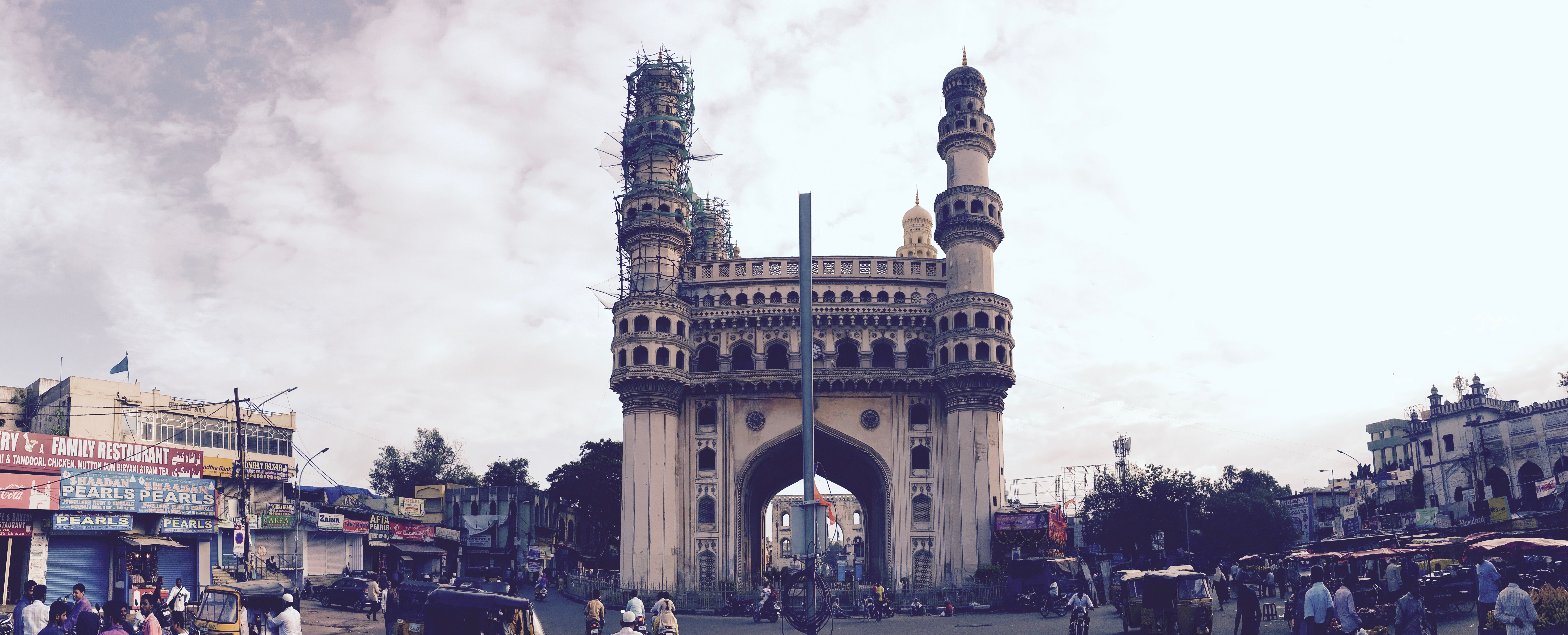 Charminar during repair works - August 2016